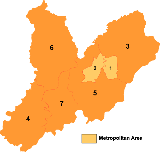 Map of Chaoyang in Liaoning province